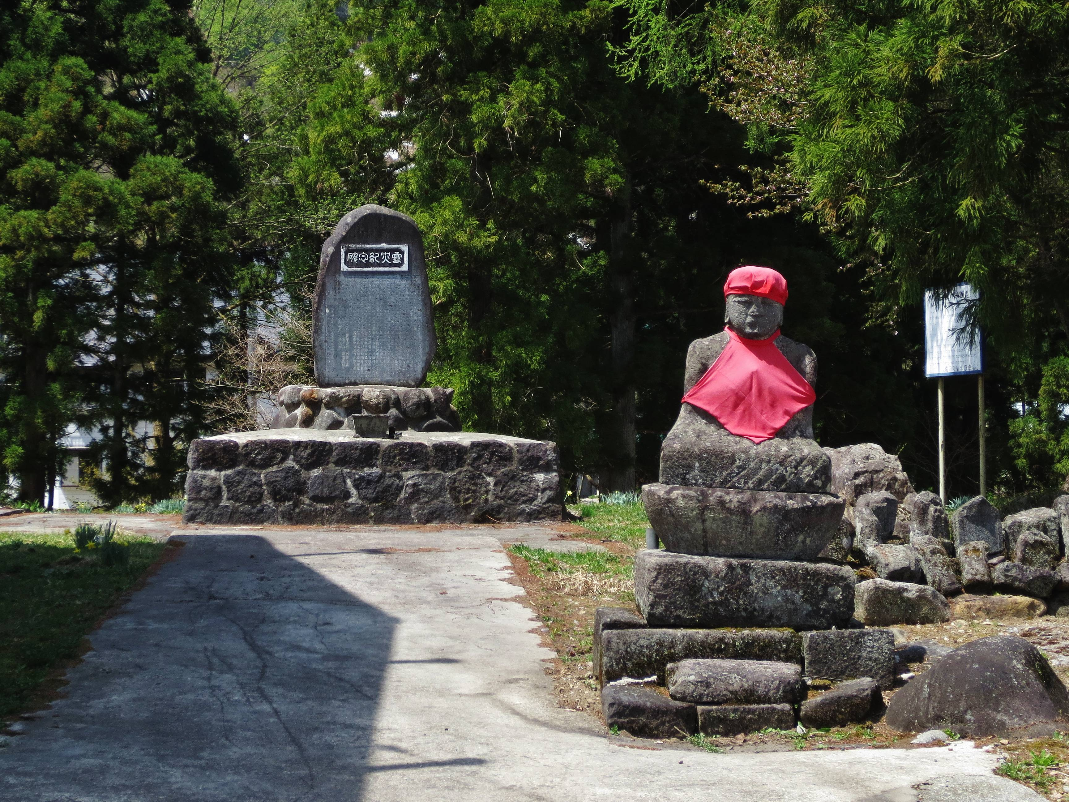 Mitsumata-juku cenotaph.